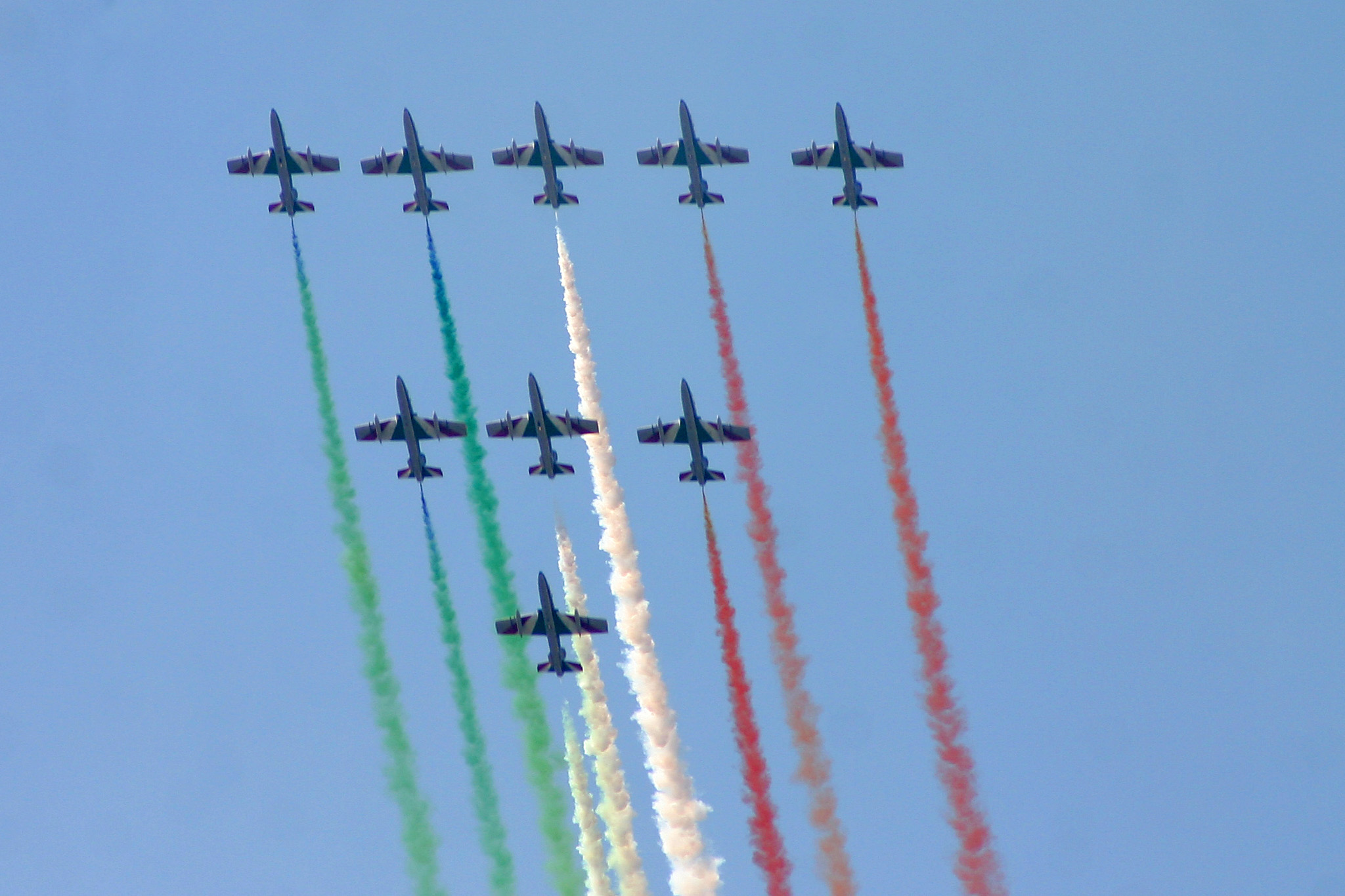 Frecce Tricolori at Air 04, Payerne, Switzerland